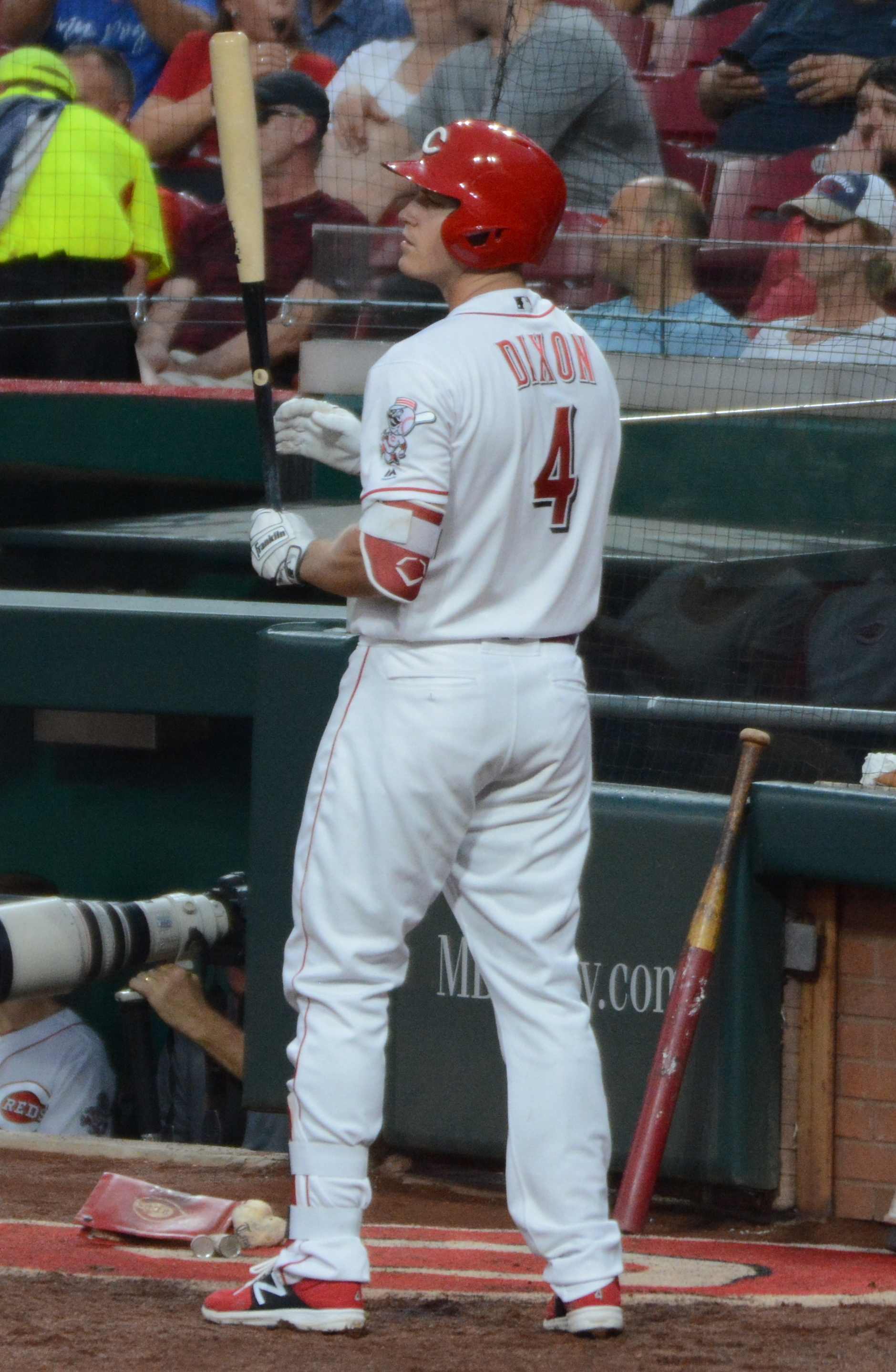 Taken at a baseball game between the Cincinnati Reds and the Arizona Diamondbacks on August 11, 2018 at Great American Ball Park in Cincinnati, Ohio.